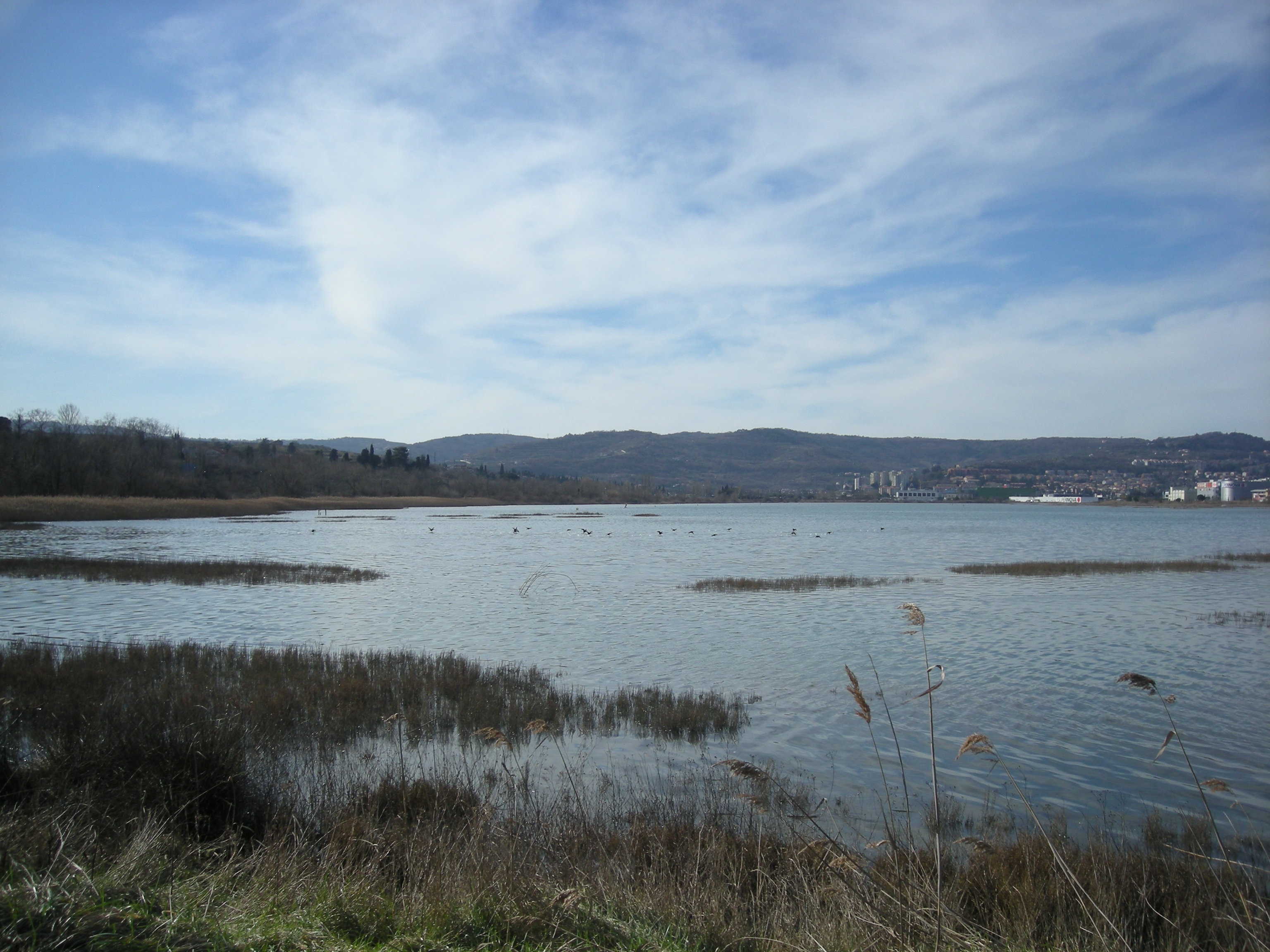 Škocjanski zatok, nature reserve near Koper, Slovenia.